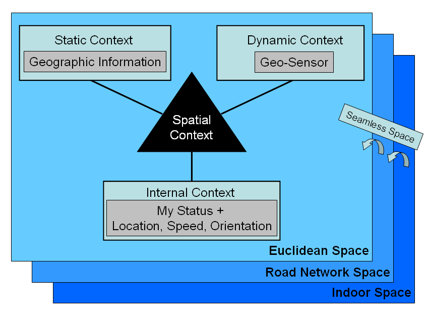 Diagram showing elements of spatial contextual (or geographic) awareness (image derived from :Li, Ki-Joune. 2007. Ubiquitous GIS, Part I: Basic Concepts of Ubiquitous GIS, Lecture Slides, Pusan National University)